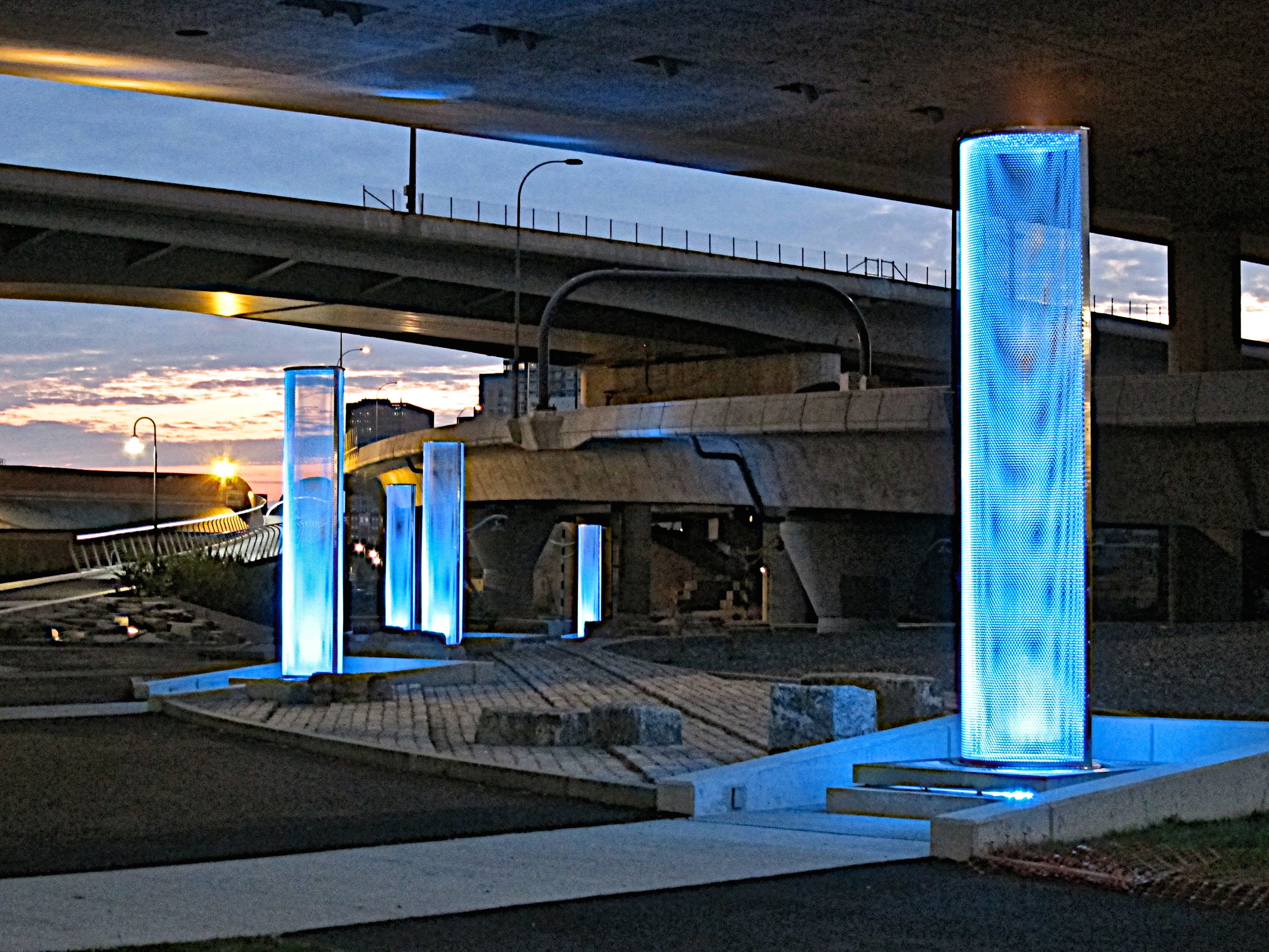 lighting sculptures under Zakim Bridge, Boston, Massachusetts.